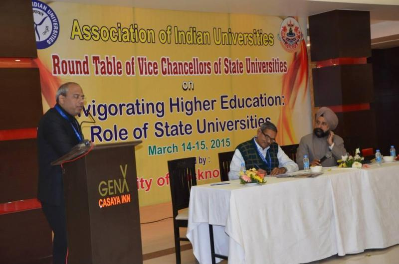 Onkar Singh delivering lecture at AIU